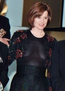 Sigourney Weaver at the 2000 César Awards.